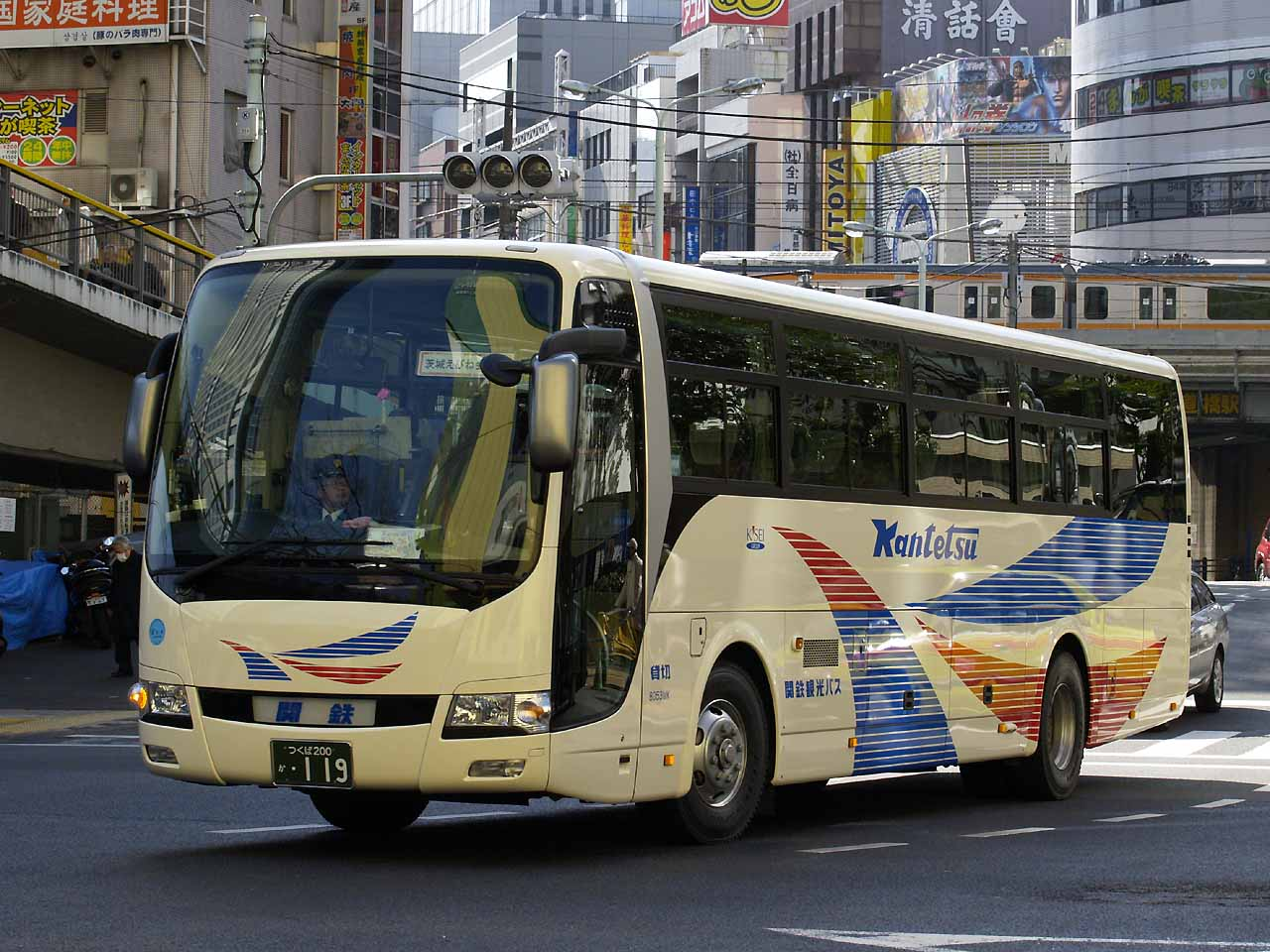 Fleet of Kantetsu Kanko Bus. Model: Mitsubishi Fuso Aero Ace BKG-MS96JP License palte: IGK200 KA-119 Place: neighbour of Tokyo Dome, Bunkyo ward, Tokyo Japan